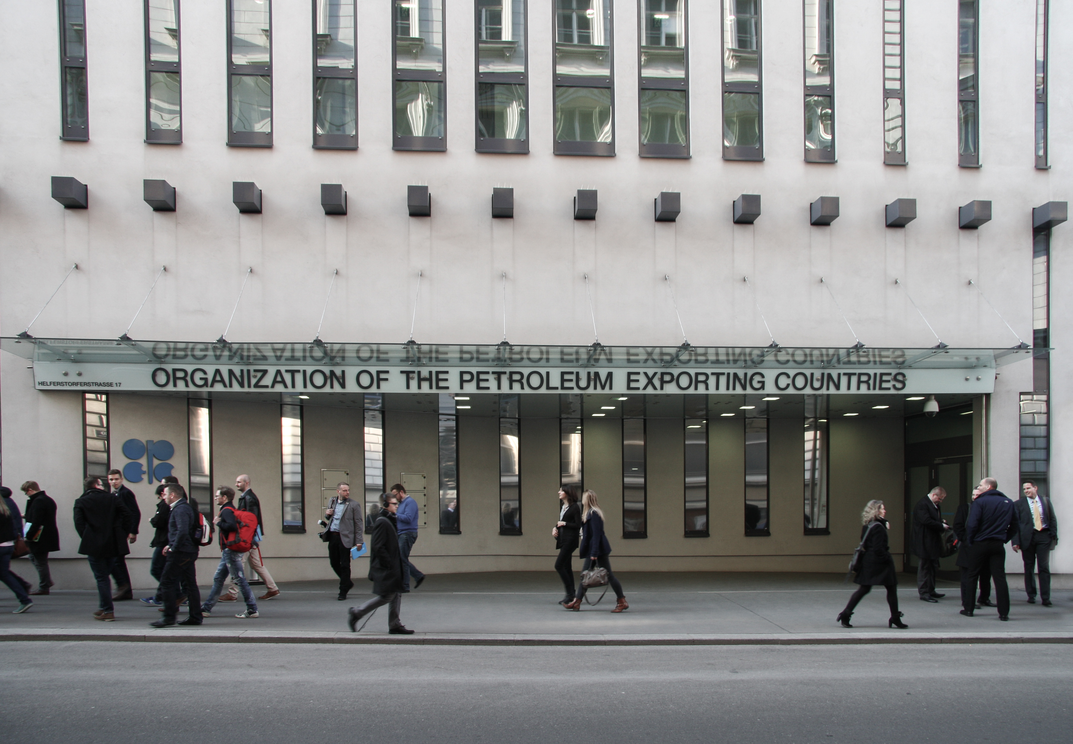 Entrance of the OPEC Headquarter in Vienna